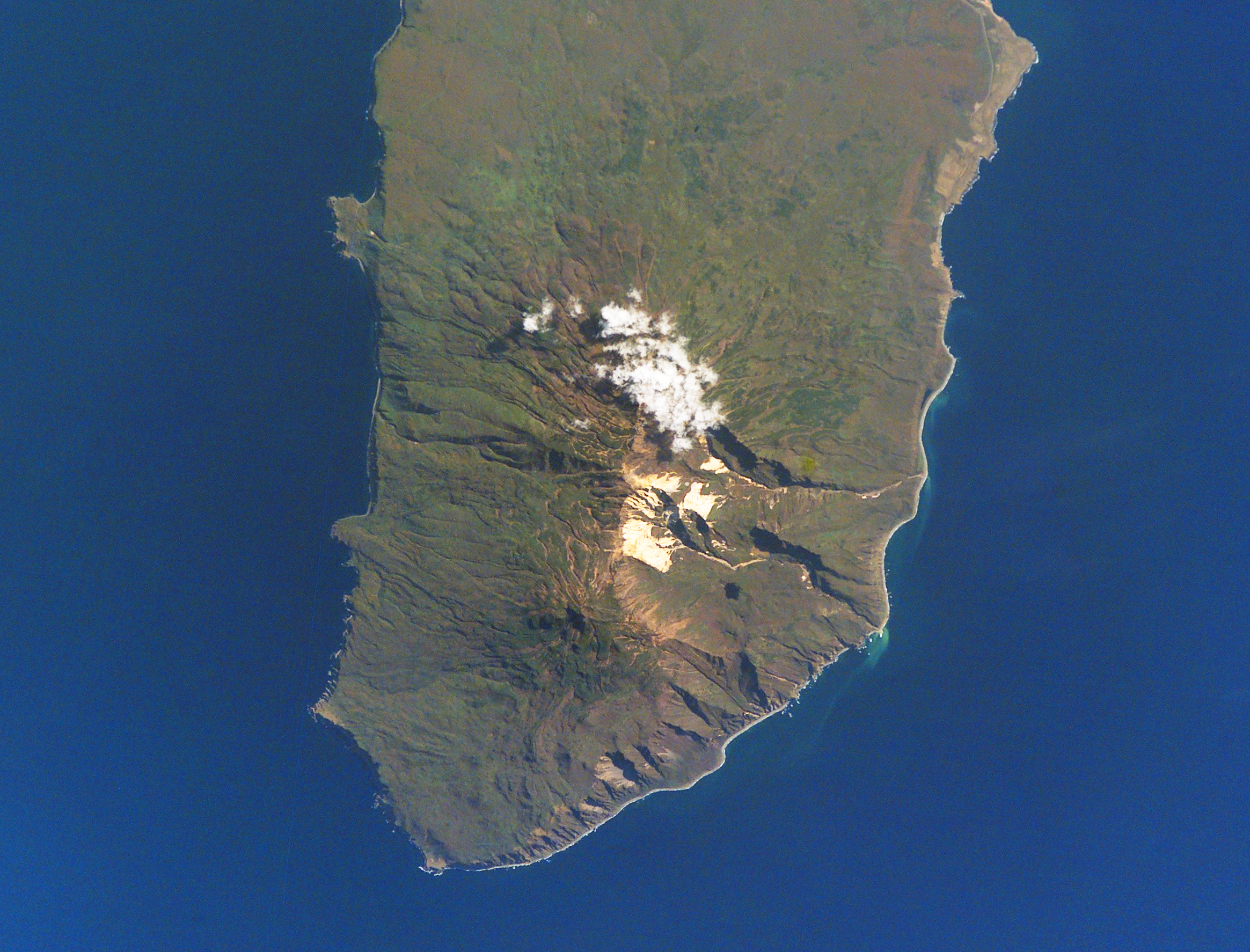 NASA image of Iturup Island, Kuril Islands